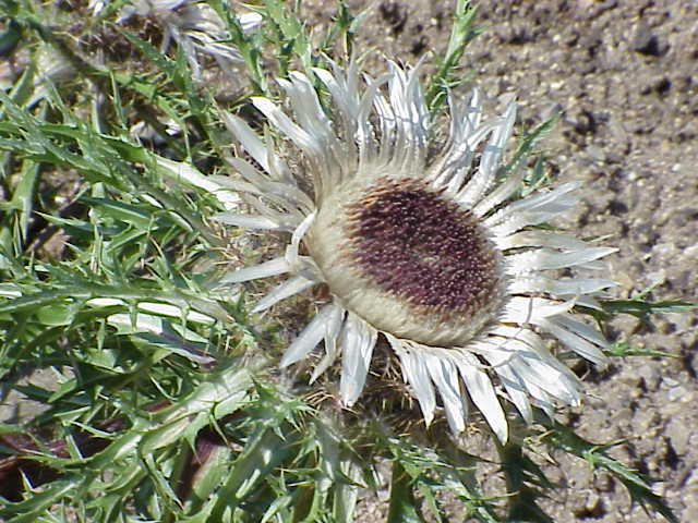 Species: Carlina acaulis Family: Compositae Image No. 1